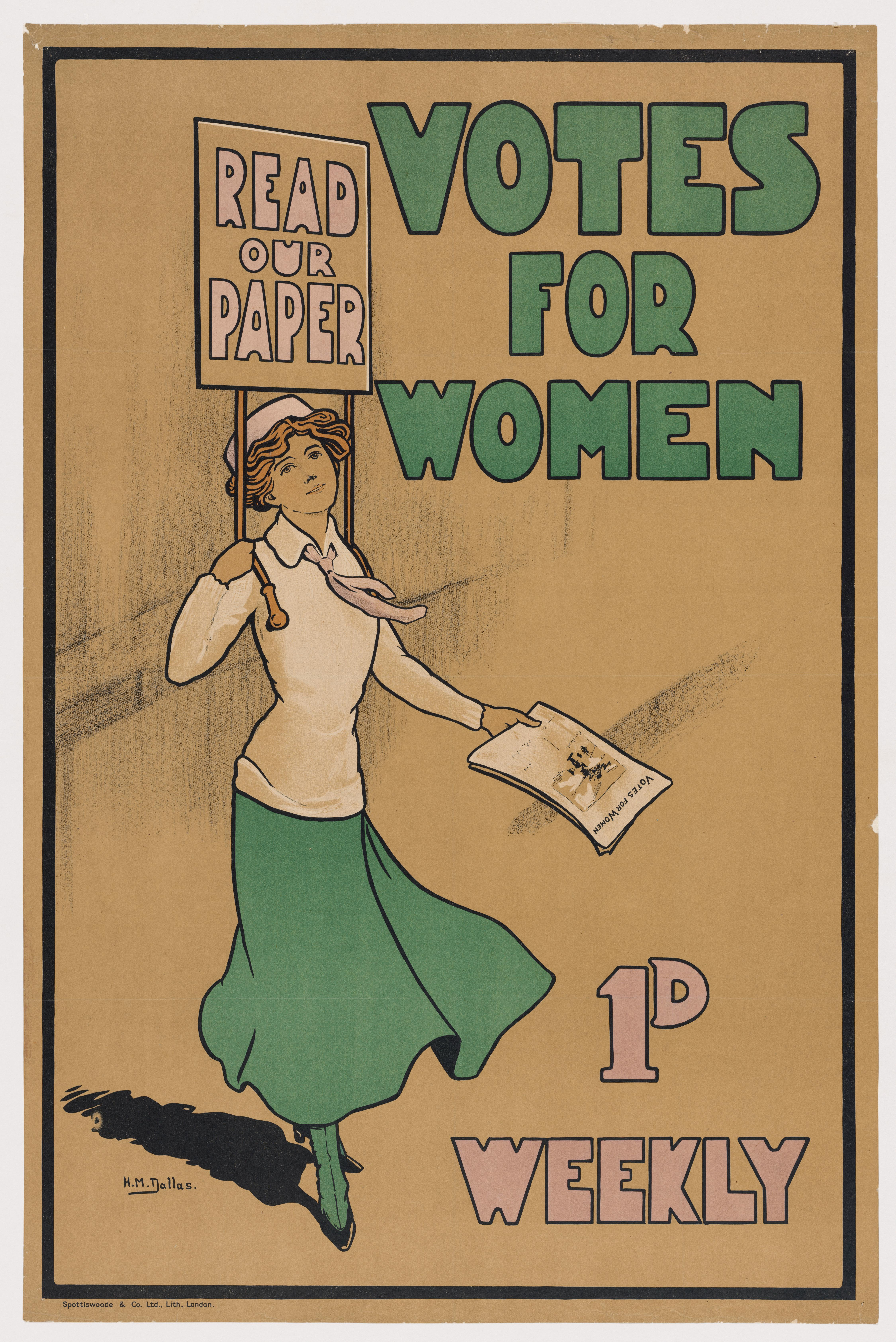 Votes for Women poster, ca. 1903-1926. Artist: H.M. Dallas Printer:Spottiswoode & Co., London View catalog record Questions? Ask a Schlesinger Librarian